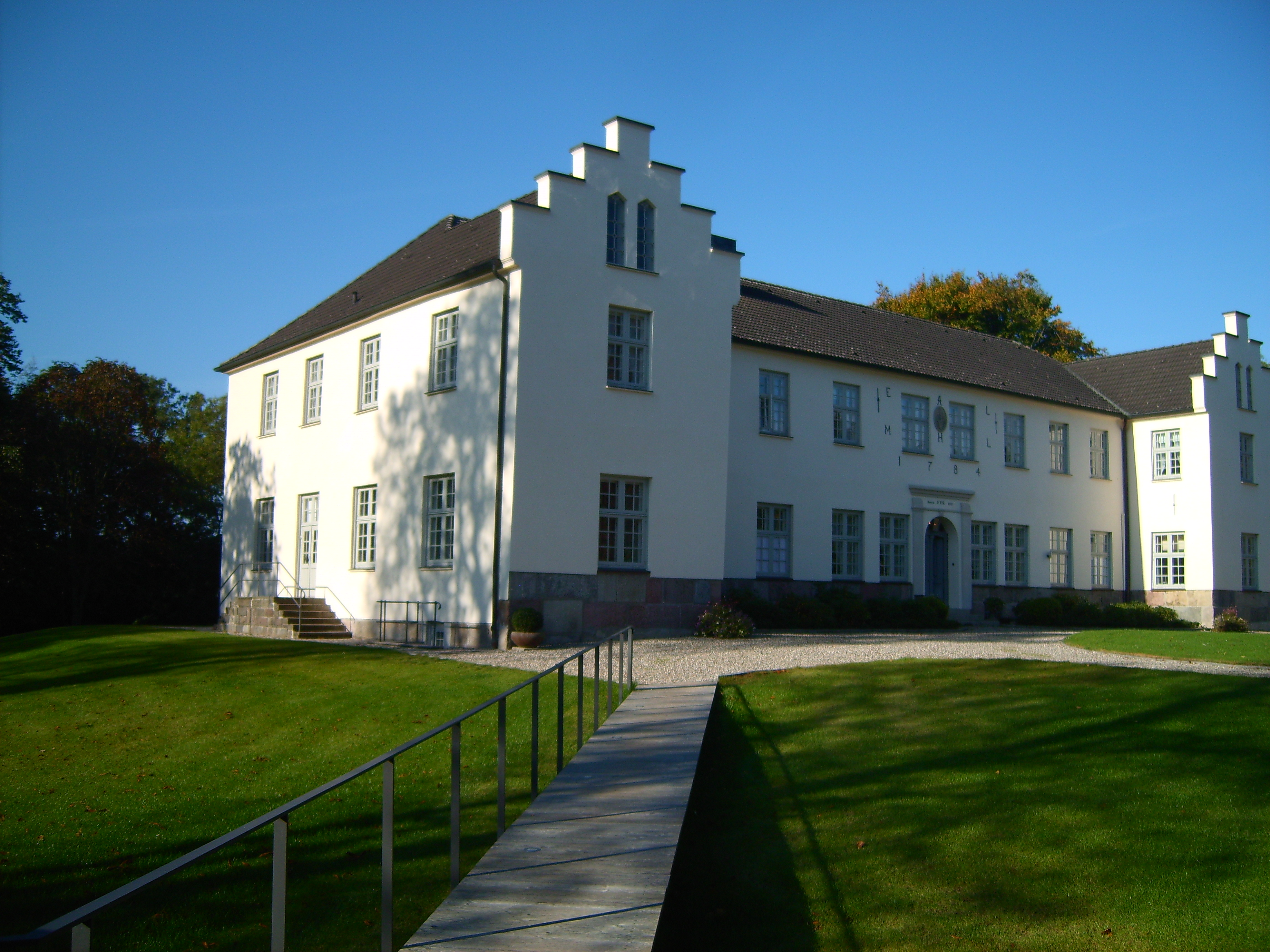 Gut Siggen, Kreis Ostholstei This is a photograph of an architectural monument. It is on the list of cultural monuments of Heringsdorf